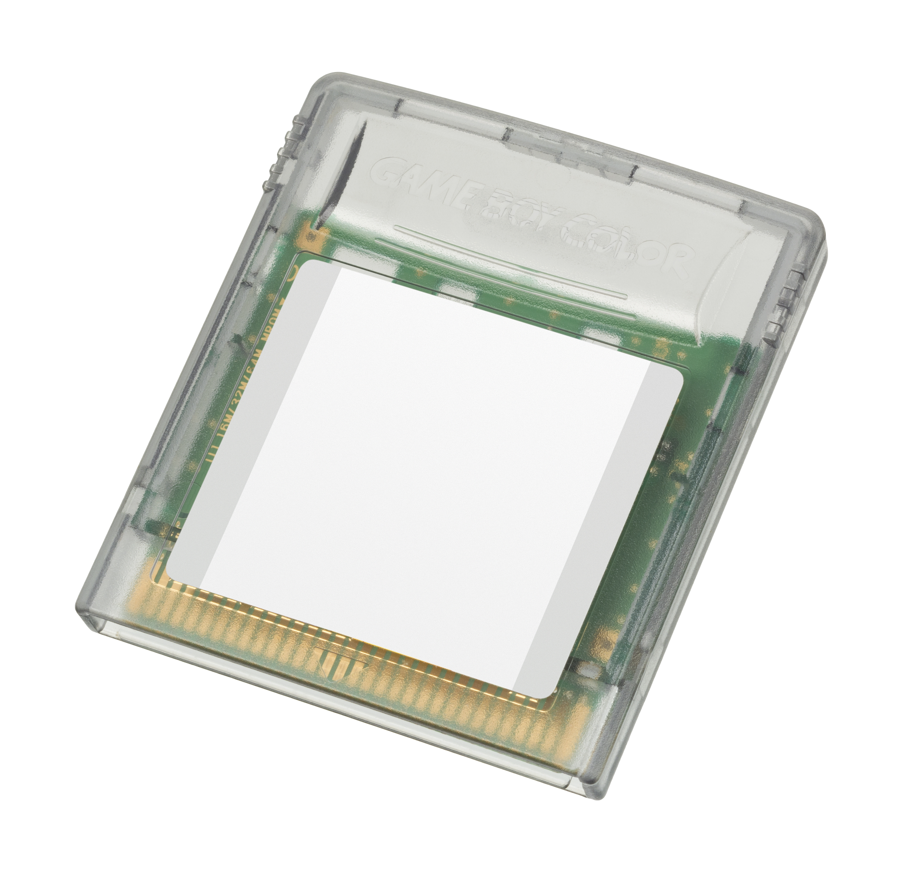 A blanked-out cartridge for the Nintendo Game Boy Color handheld console. This is the clear version, which denotes that it is specifically for the Game Boy Color platform and cannot be played on standard Game Boys.